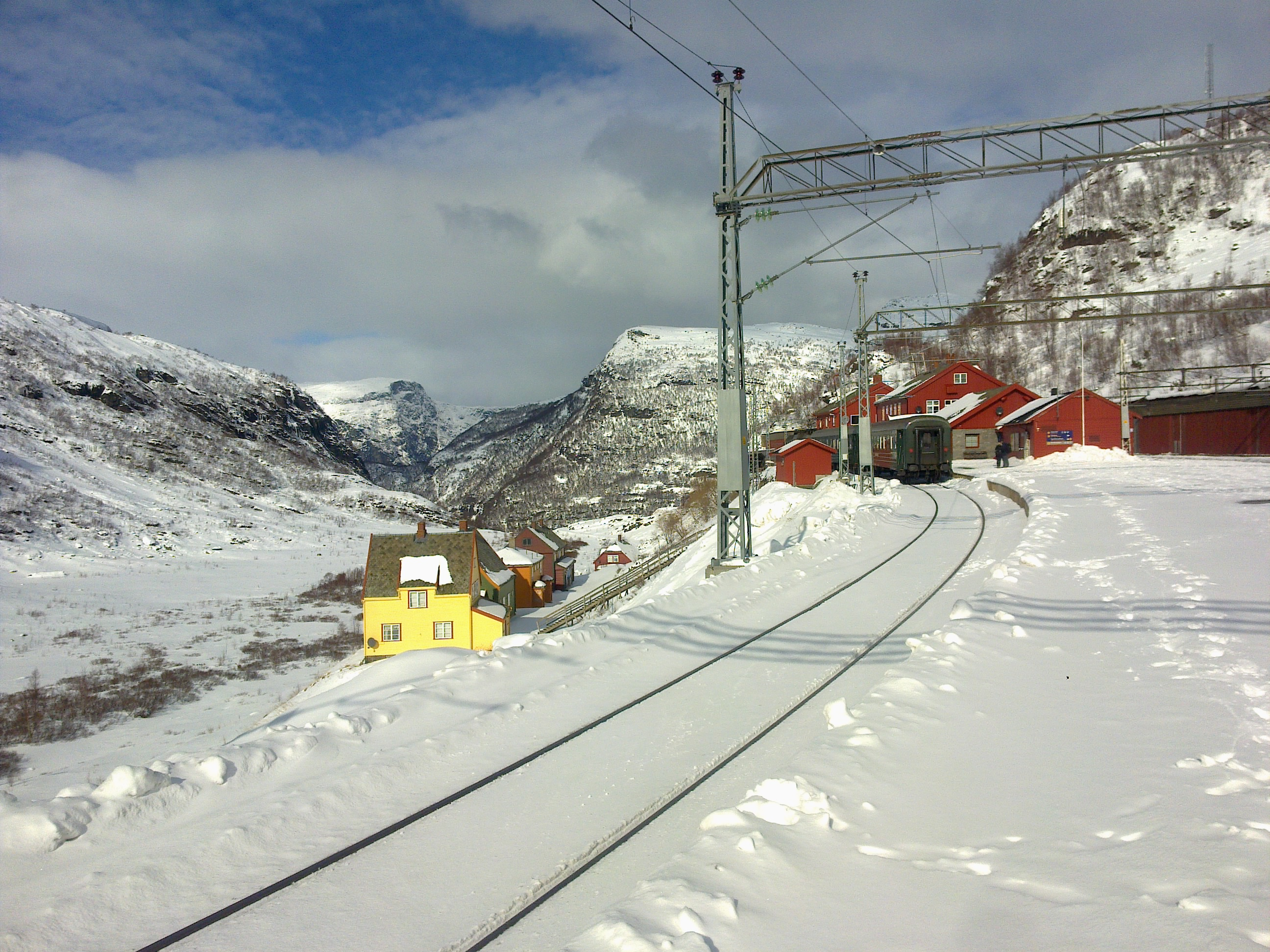 This is Myrdal on february 2010